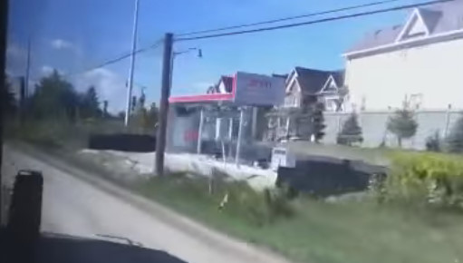 Captured using Bandicam from one of my Brampton Transit video